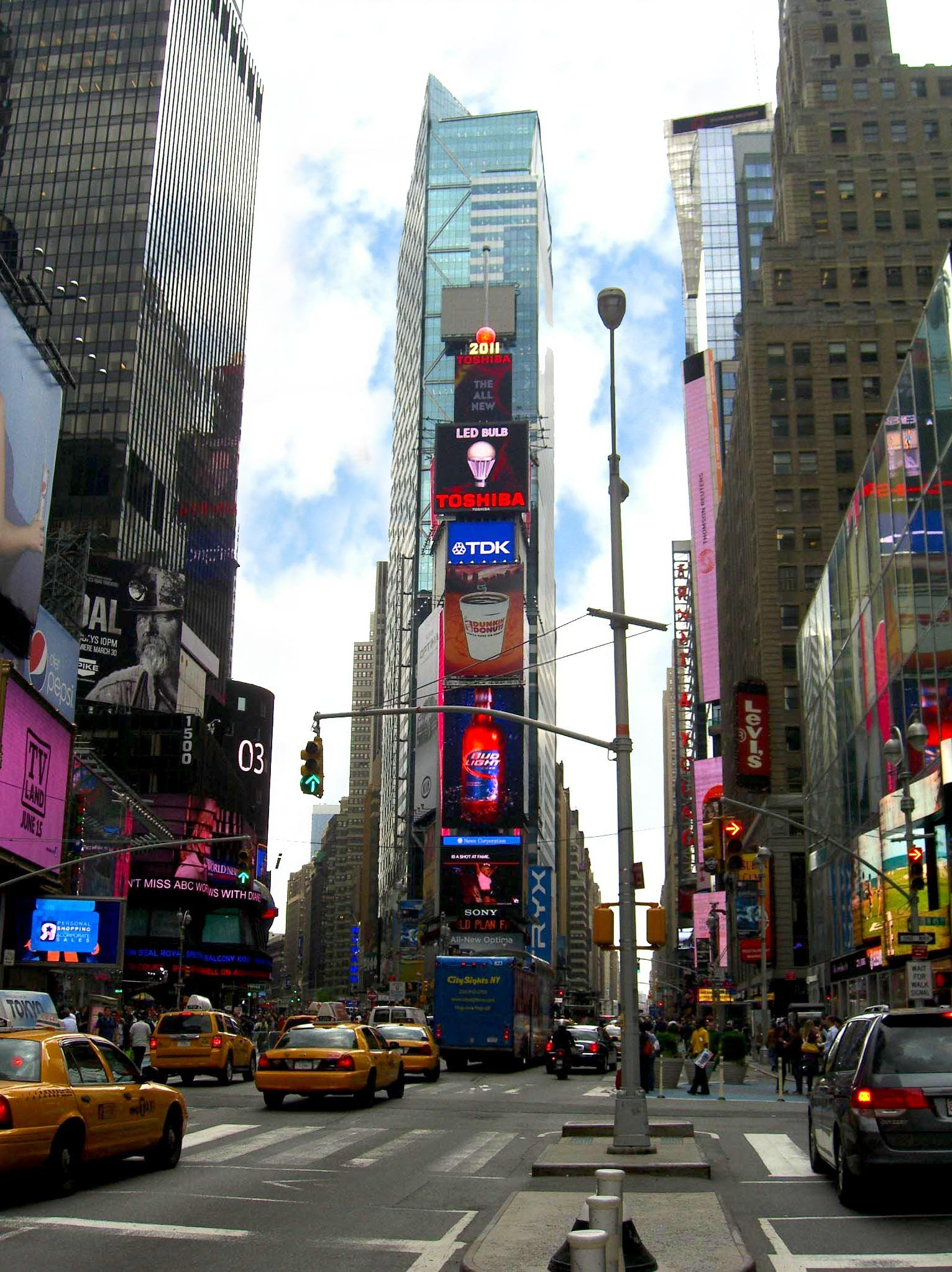 Times Square, on April 29, 2011.Photographed by Luigi Novi. This photo is not in the public domain. It may, however, be used, modified and published for any purpose, free of charge, only if the photographer is properly credited, either by linking the photograph to this page, or with an easily visible credit to the photographer placed near the photo in each instance in which it is used. (See licensing information below.) Publication of this photo without this proper attribution constitutes copyright infringement. If you have any questions, you can contact me on my Wikipedia Talk Page.